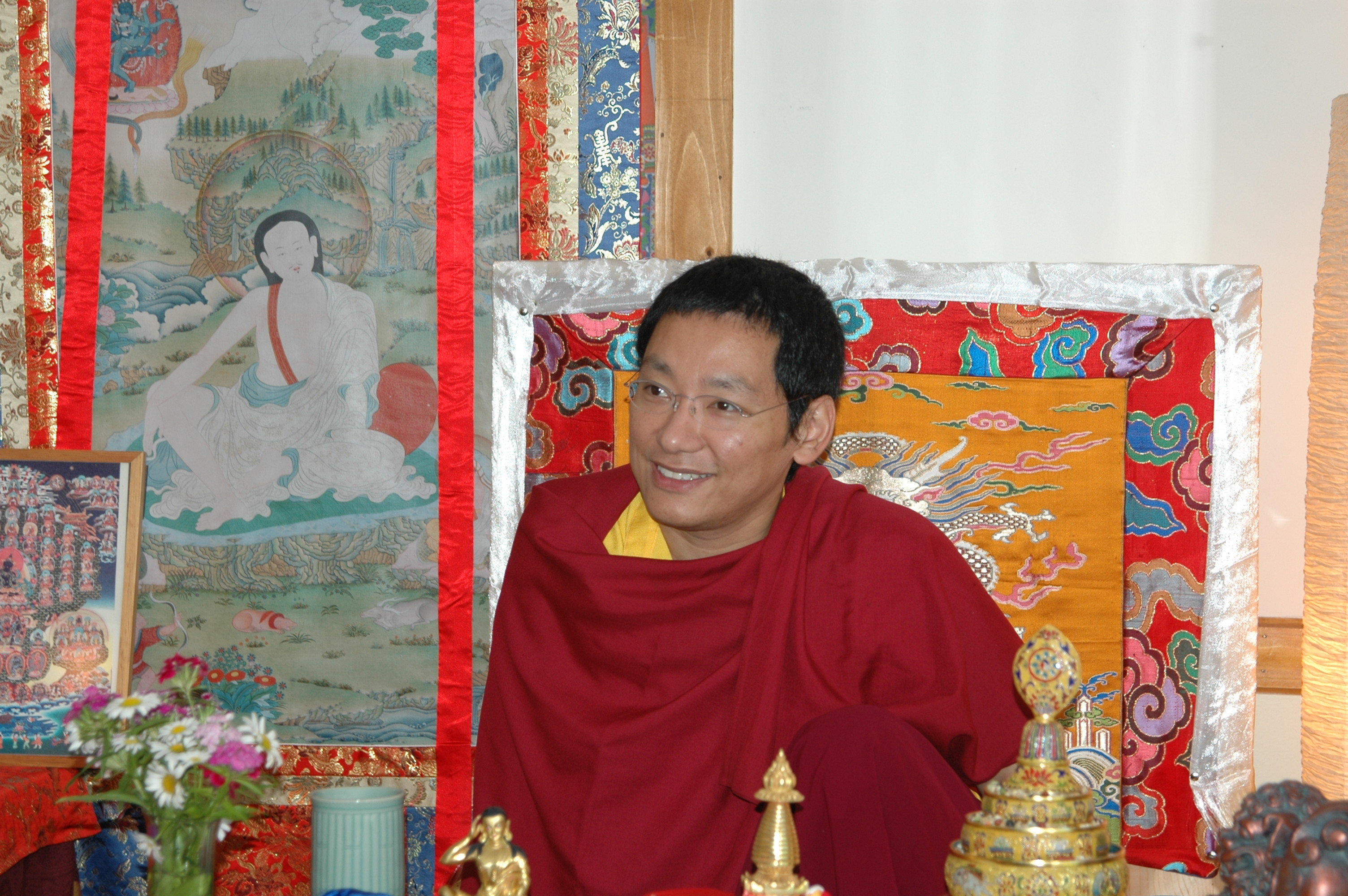 Teaching with Milarepa